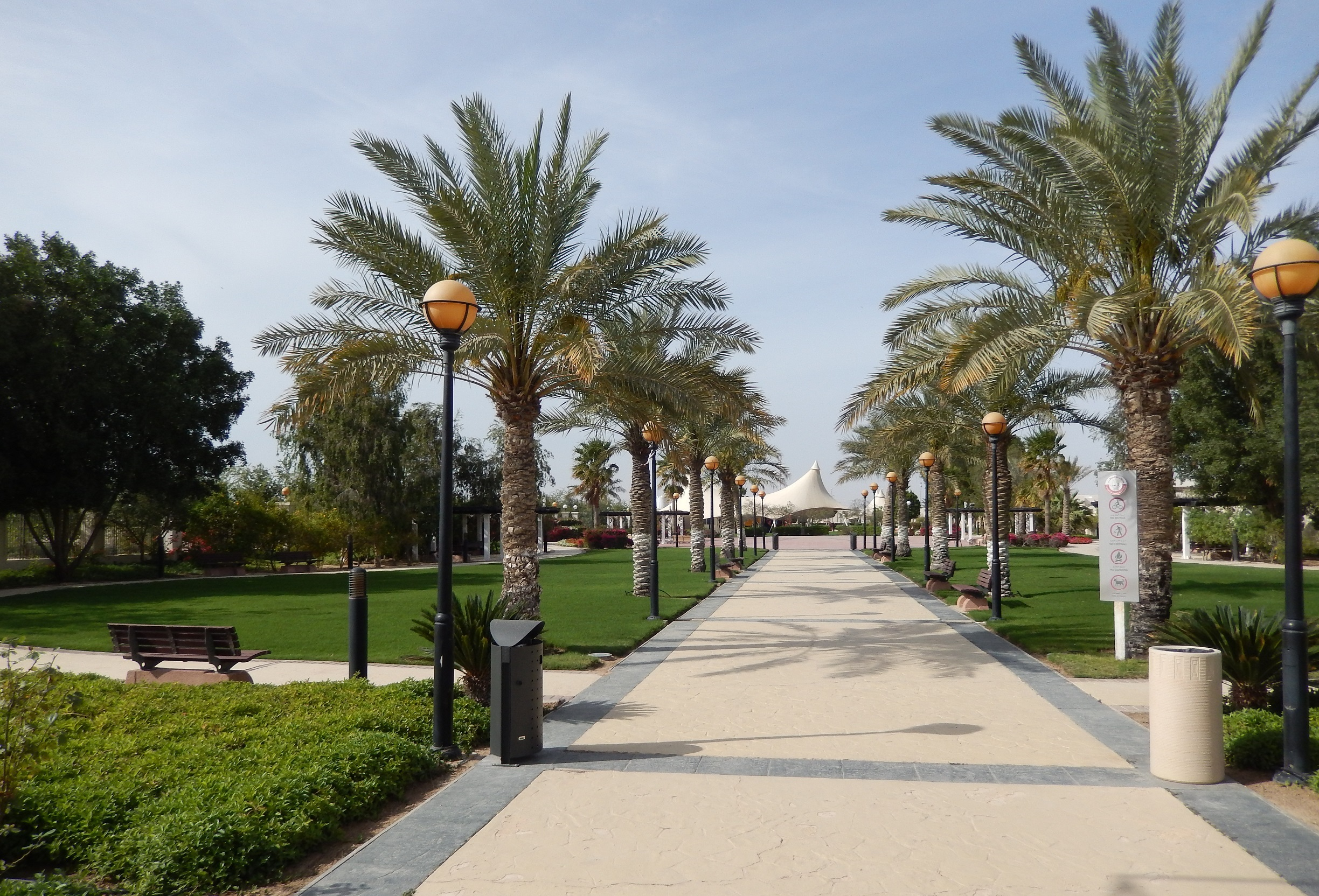 Park in Al Jumailiyah, in the central part of the village (municipality of Al Rayyan, Qatar).